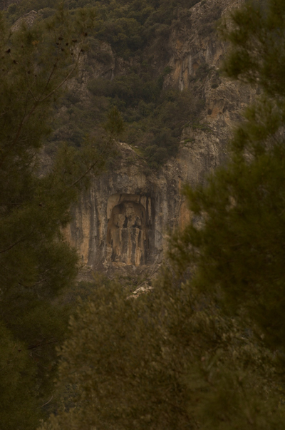 Late-Hittite full-faced statue of Cybele carved in rock in Mount Sipylus in Manisa, Turkey